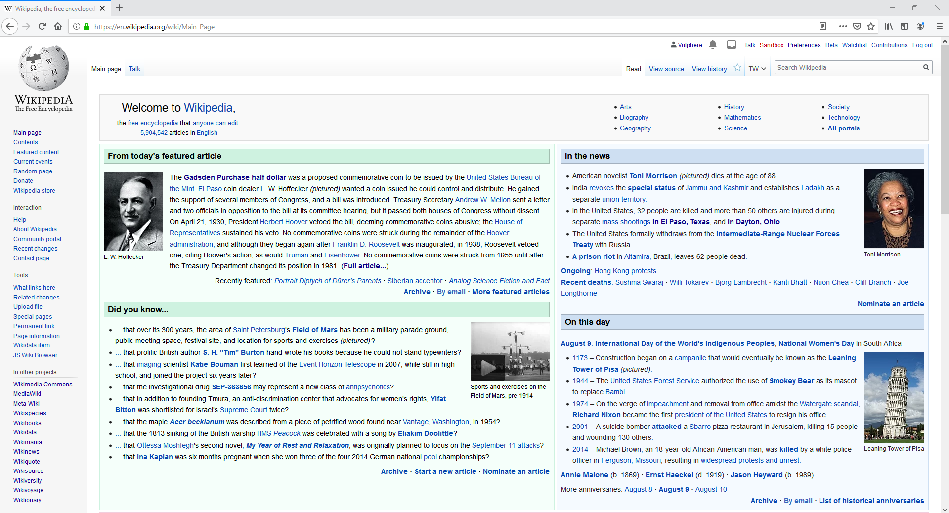 Firefox on Windows 10, version 68.0.1